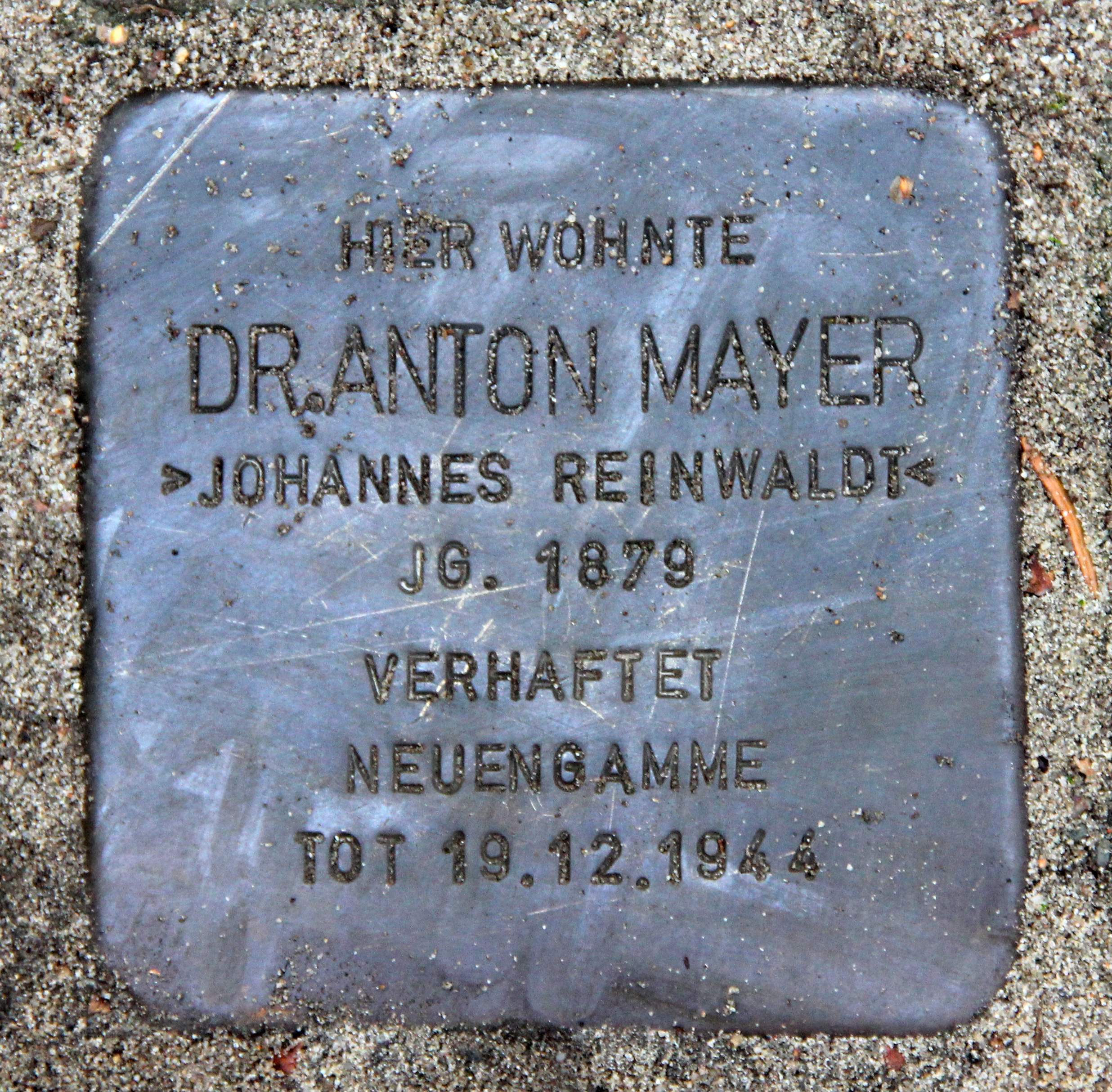 "Stolperstein" (stumbling block), Anton Mayer, Rudolf-Breitscheid-Straße 60, Kleinmachnow, Germany